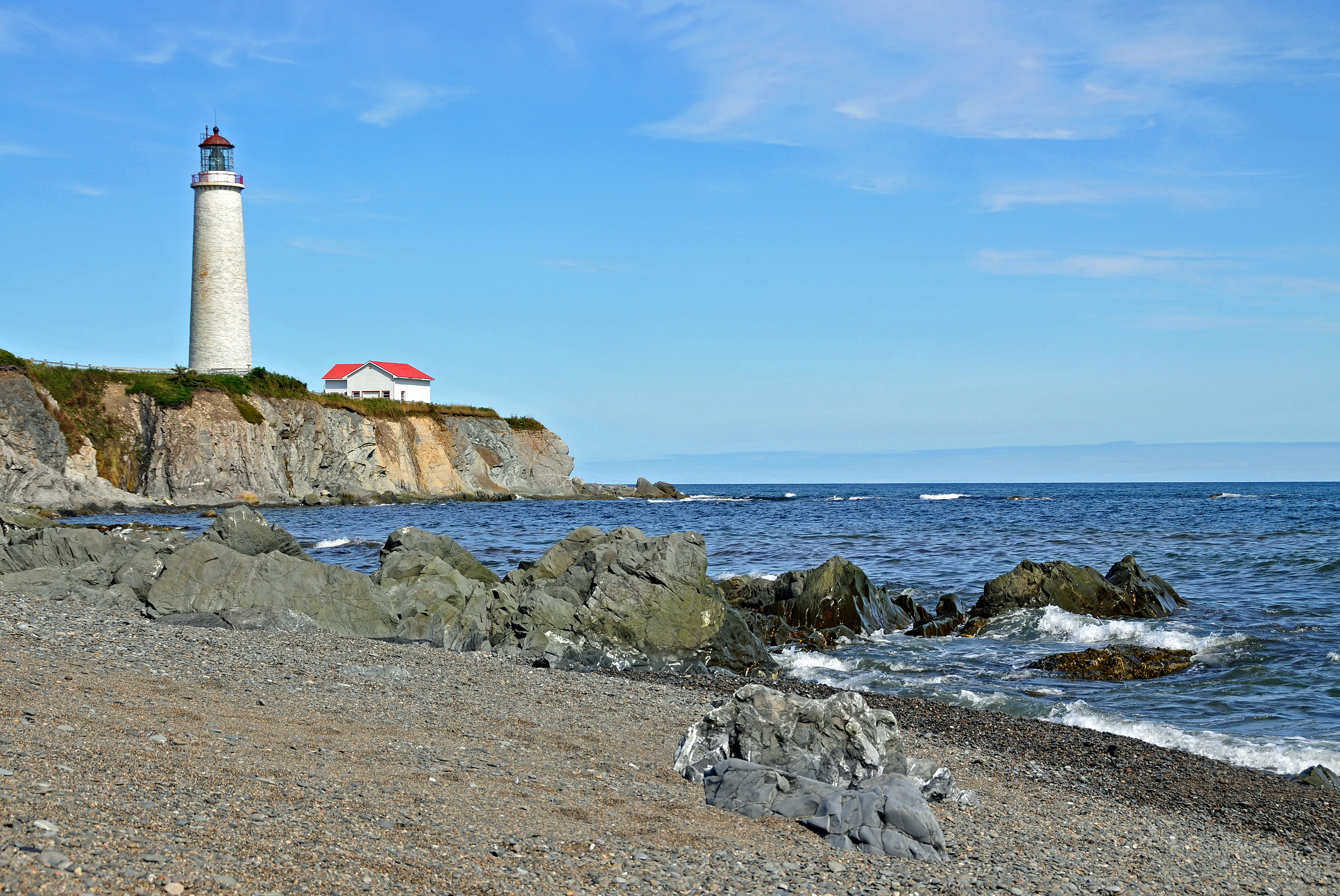 Erected in 1858, Cap-des-Rosiers Lighthouse is one of the tall beacons built by the Canadian Coast Guard in Québec. Canada’s tallest lighthouse, it soars 34.1 metres (112 feet) into the air. With white marble walls over 2.1 metres (7 feet) thick at the base and tapering to 0.9 metres (3 feet) at the top of the tower, it stands on a foundation rooted 2.4 metres (8 feet) deep in the soil. Its powerful light, perched 41.4 metres (136 feet) above the sea, has guided ships without fail since the lighthouse was built. The site has been developed to enhance this magnificent structure, which was declared a national historic site in 1977 by the Historic Sites and Monuments Board of Canada.